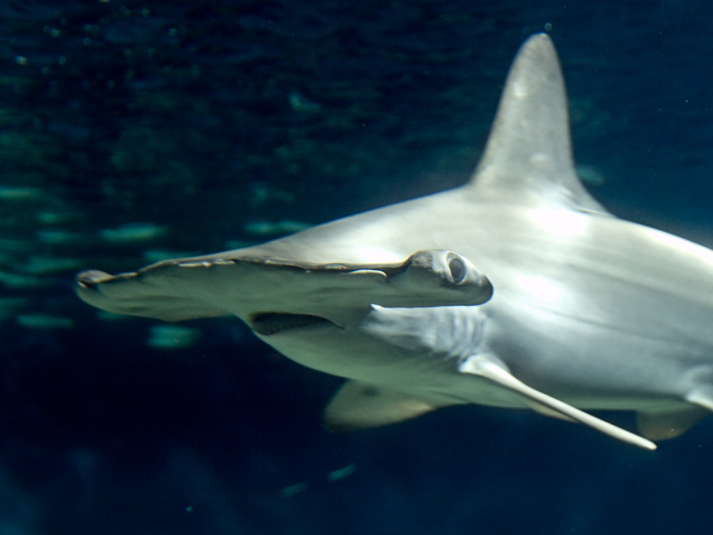 Scalloped hammerhead shark (Sphyrna lewini)